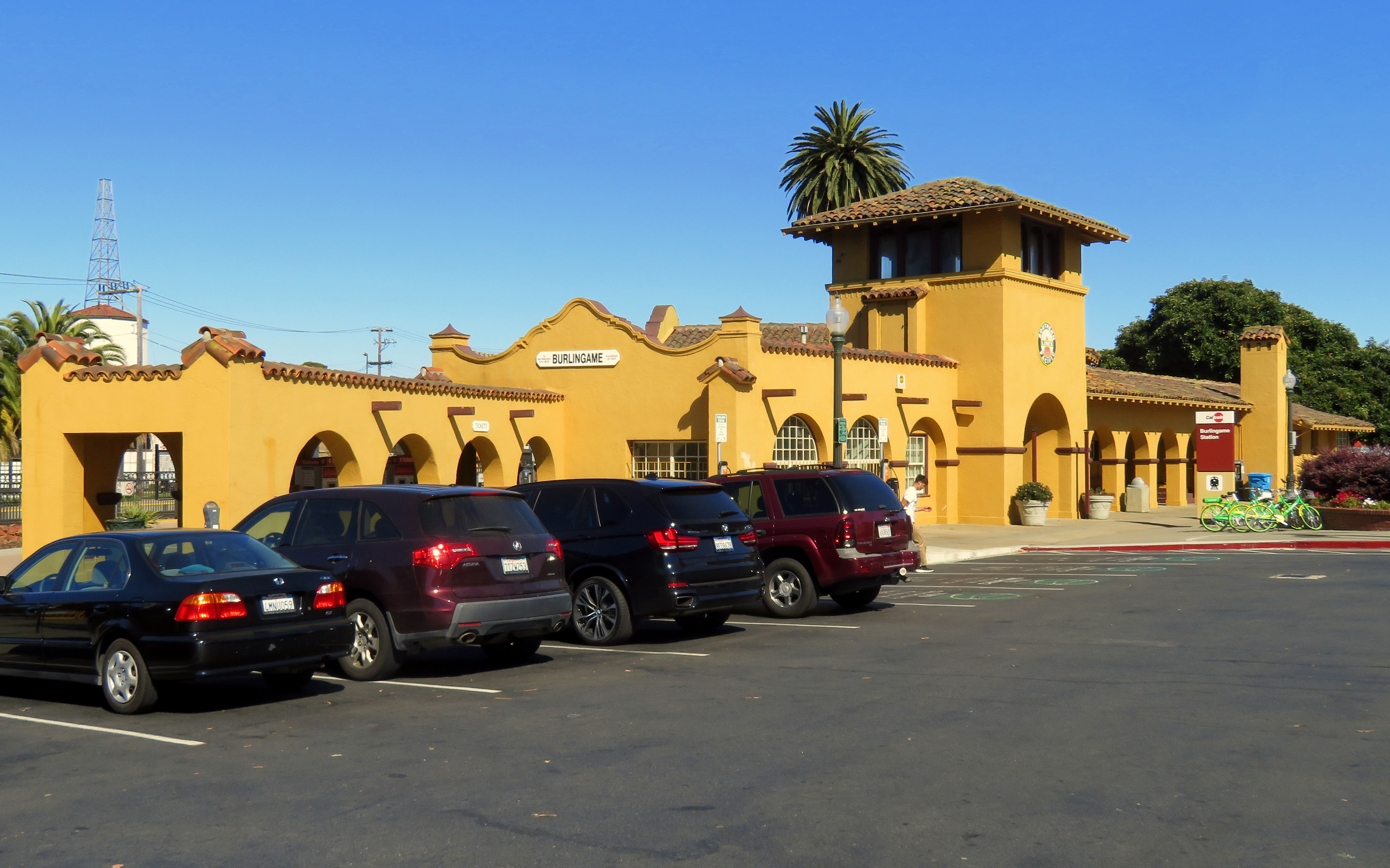 Burlingame station in August 2018